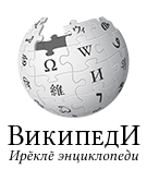 Wikipedia logo 2.0